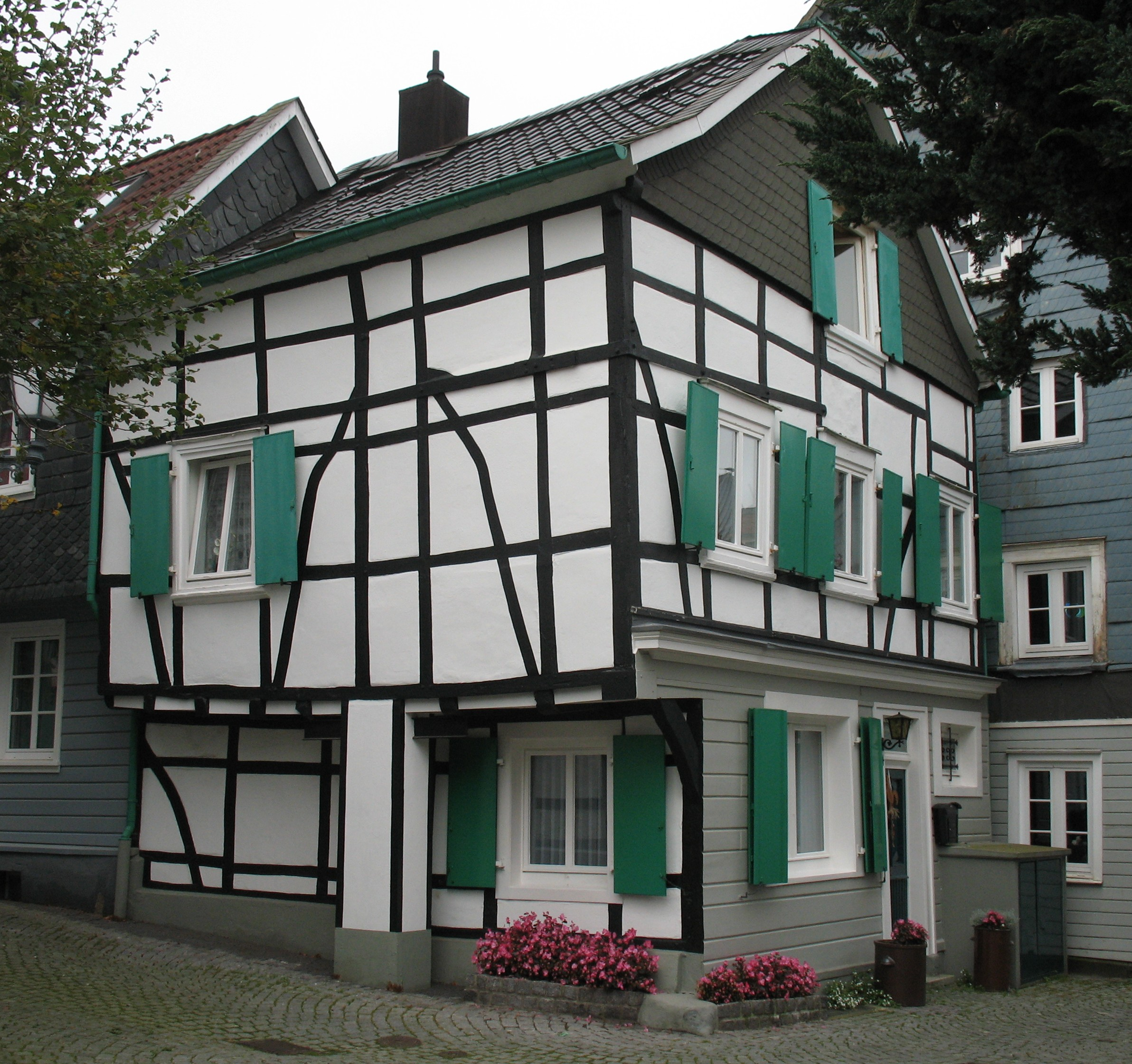 Building in Remscheid-Lennep in North Rhine-Westphalia, Germany